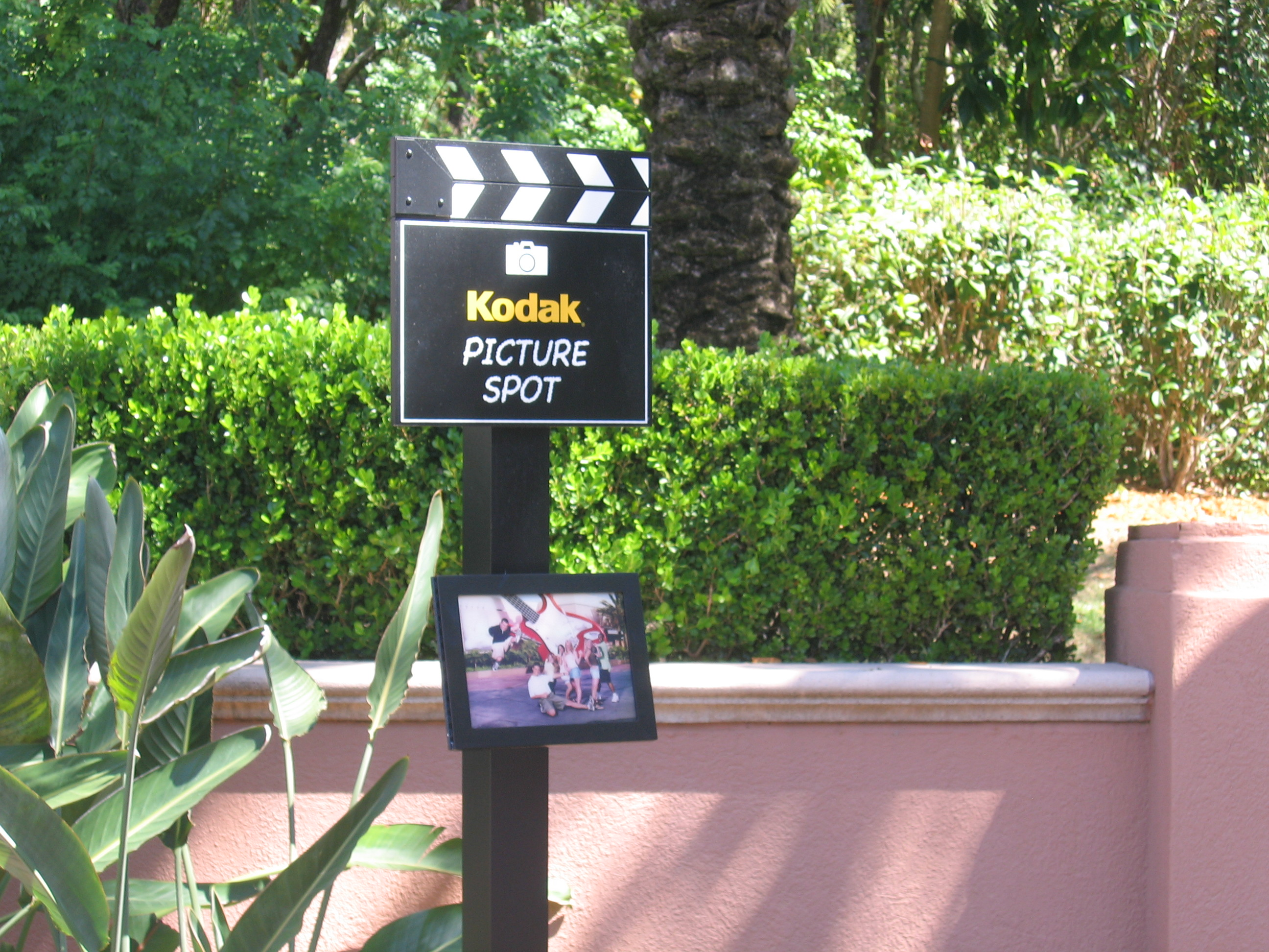 A Kodak Photo Spot at Disney's Hollywood Studios. Photo by tom.arthur, posted to Flickr